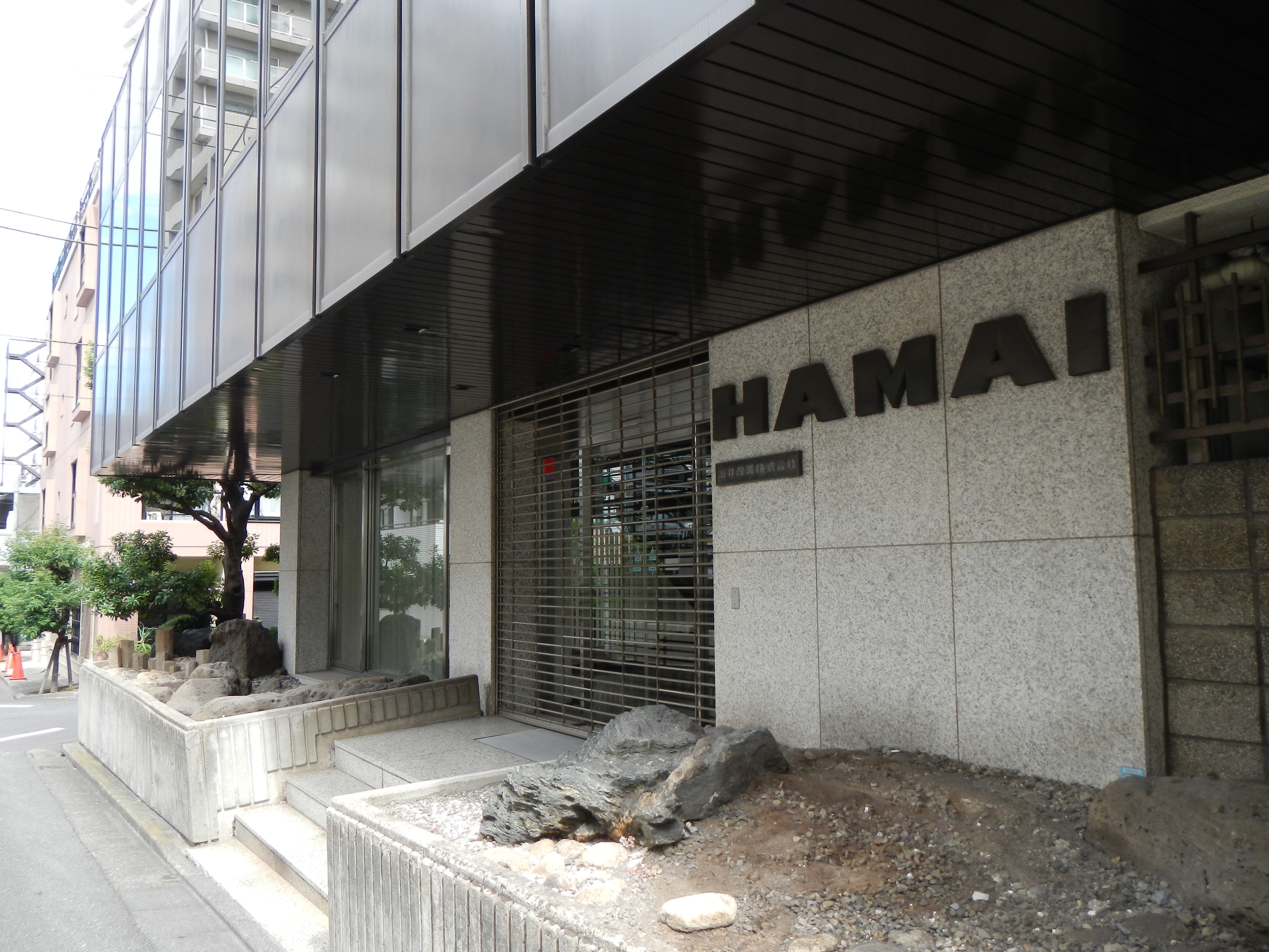 Head Office Building of Hamai Co.,Ltd. in Shinagawa, Tokyo.